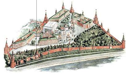 Overview map of the Moscow Kremlin. Location of Blagoveshenskaya Tower marked.